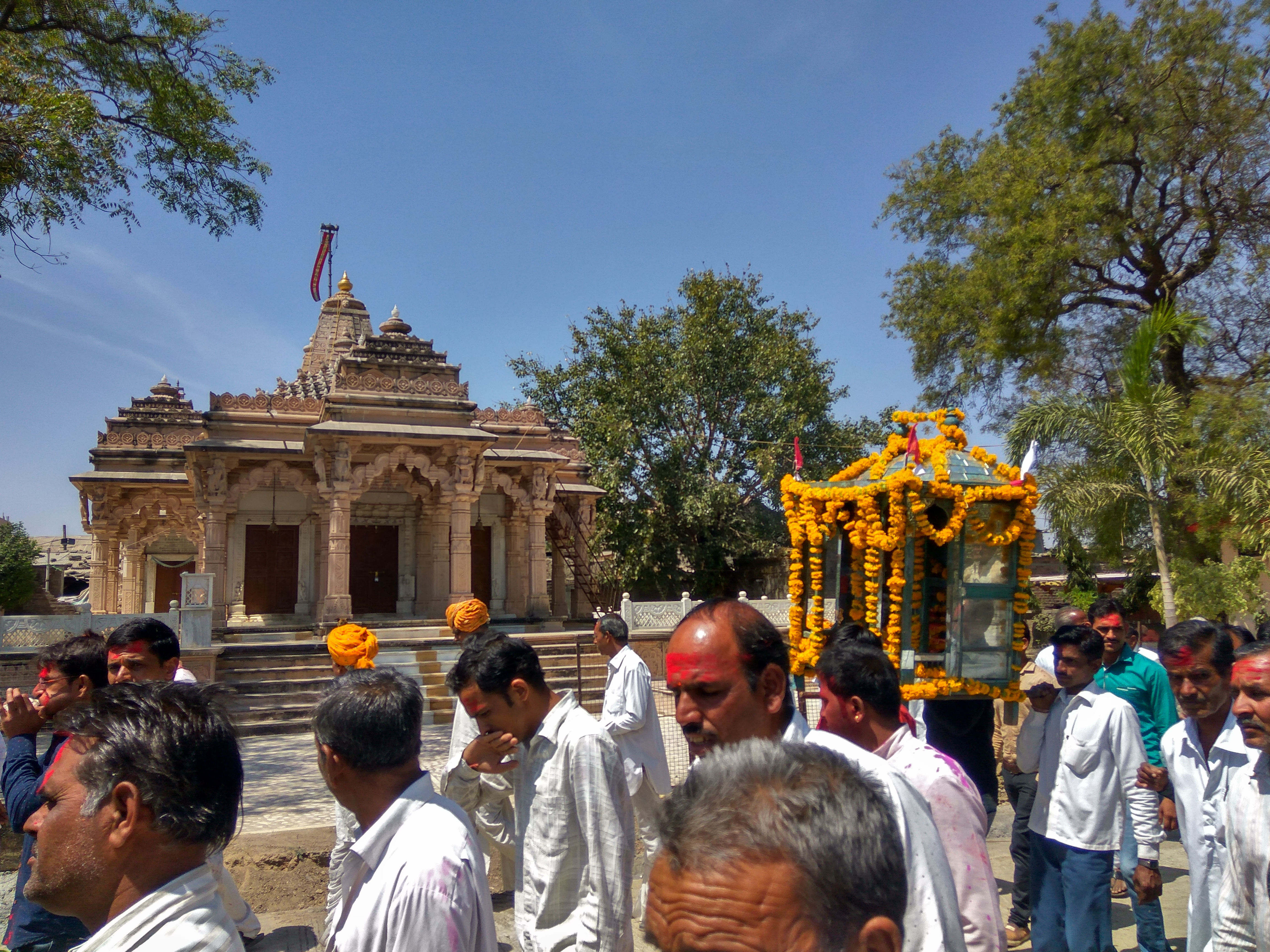 Jamra is a festival celebrated next day after Holi.